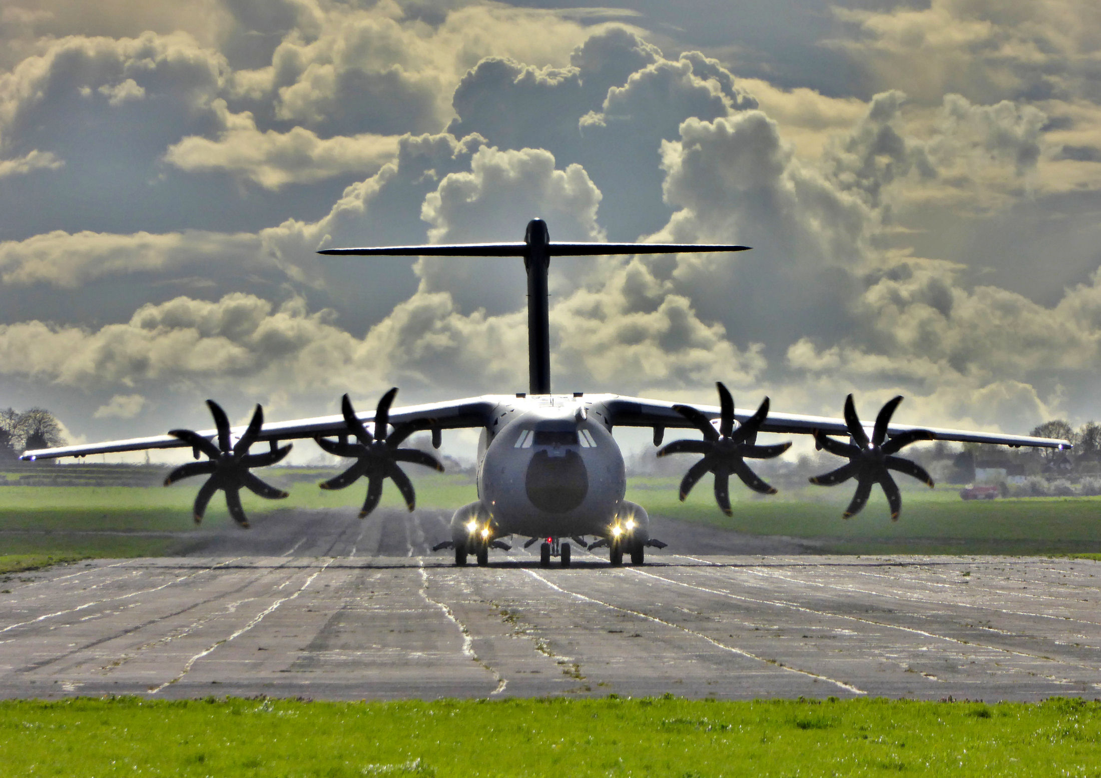 An RAF Airbus A400M Atlas backtracking for departure at RAF Keevil during Exercise Joint Warrior iin March 2017. RAF Keevil is a mostly unused WW2 airfield. The RAF occasionally use it for practicing tactical operations with their transport fleet. Once a year in March it is used for Excerise Joint Warrior.